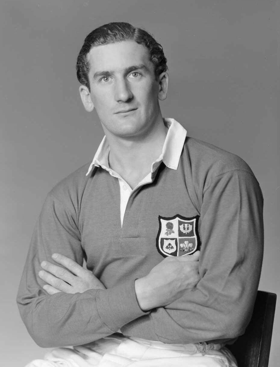 W R Willis, member of the Lions, British representative rugby union team